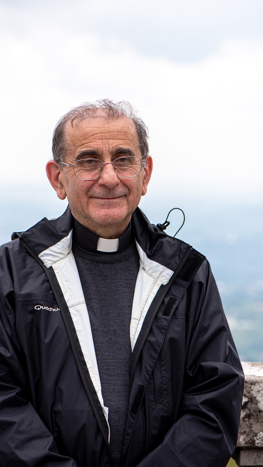 The Archibishop of Milan Mario Delpini together with the Association "Milano per Giovanni Paolo II"